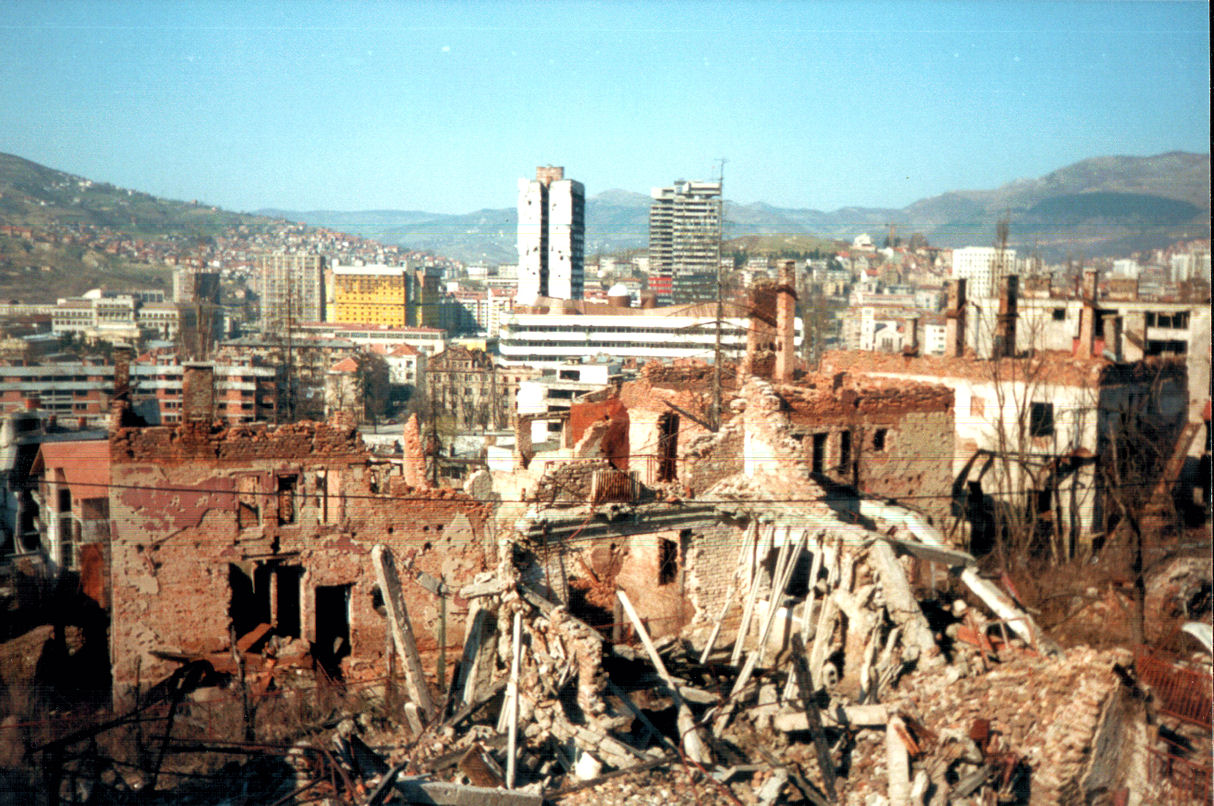 destroyed District of Sarajevo during Siege of Sarajevo